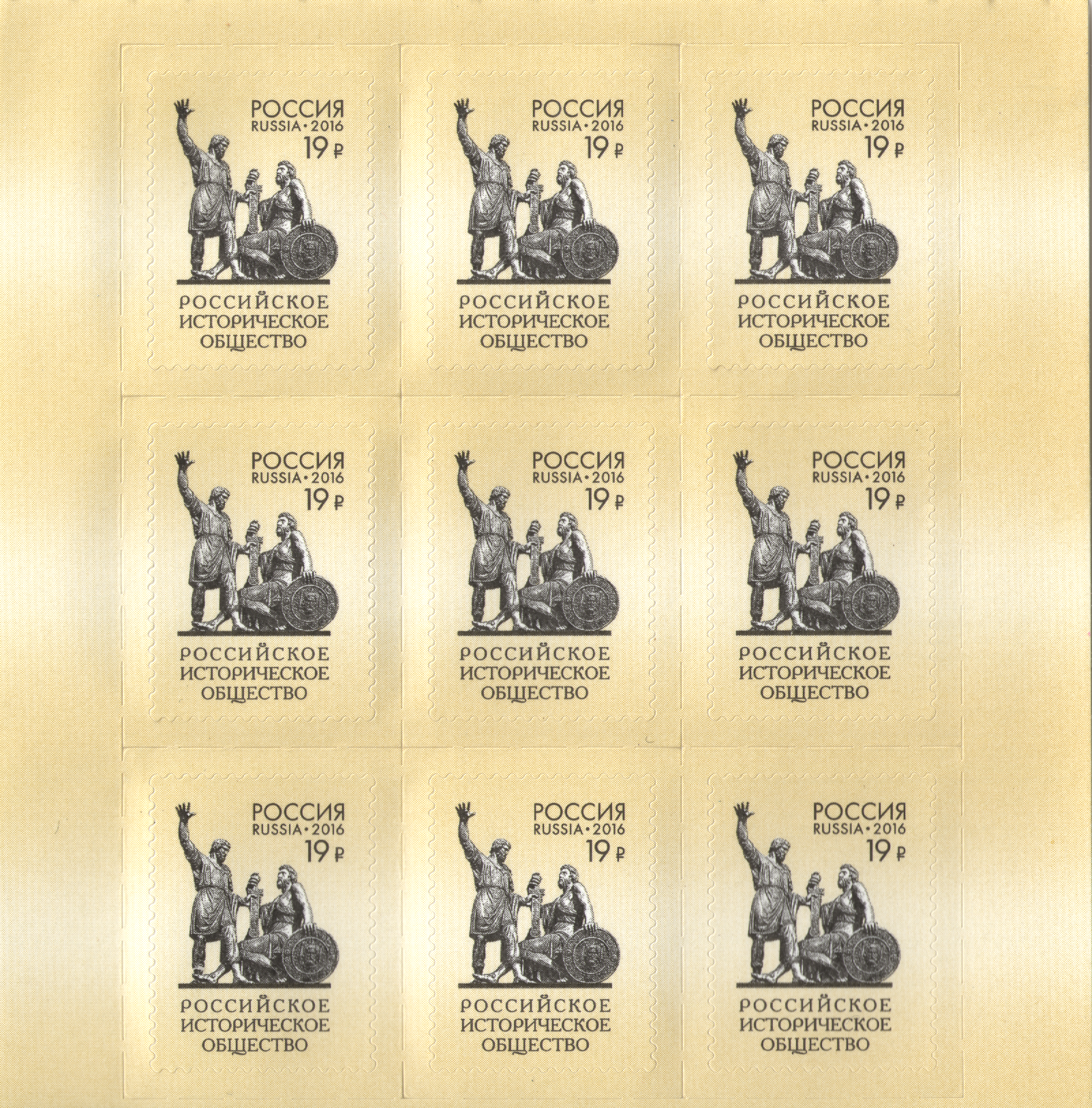 Russian postal stamp block (9 stamps) about the Russian Historical Society. Cost 19 roubles.